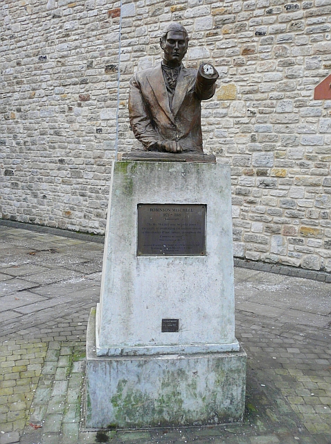 Statue of Robinson Mitchell, auctioneer. Robinson Mitchell pioneered the auctioning system which is widely used today, as he realised taking bids from buyers was more efficient than the haggling between individuals which went on before. At Cockermouth in 1865, he set up what is believed to be the first purpose-built livestock auction market in the country. The business he founded moved their livestock operation out of town in 2002 54827. Sainsbury's acquired the vacated site and paid for this statue, by sculptor Liz Gwyther, to be erected outside the supermarket 1064027. It has suffered persistent and expensive vandalism - a hand with a pointing finger has been lopped off the right arm, and a gavel prized away from the left. A photo of how the statue used to look can be seen here